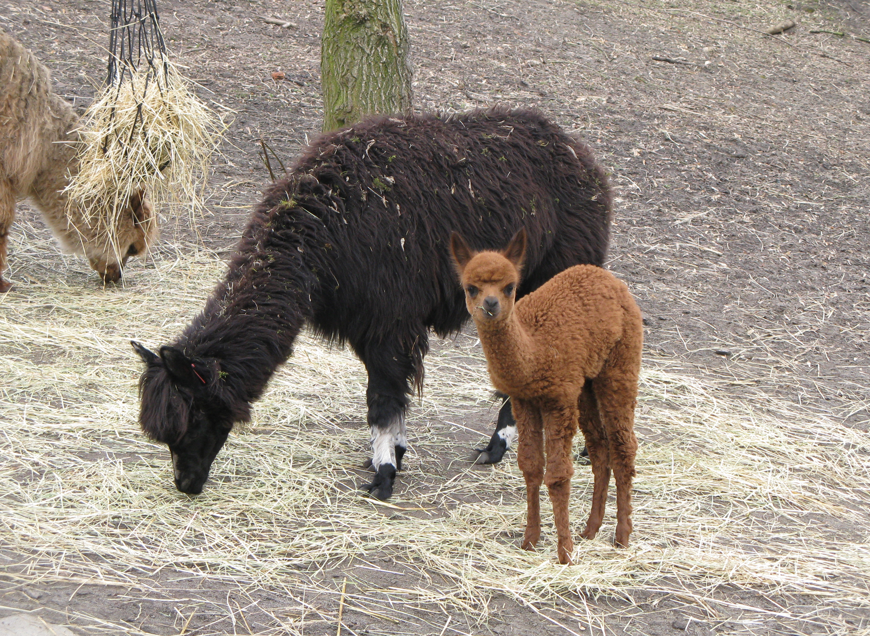 Vicugna pacos with the young one in Zoobotanical Garden in Toruń